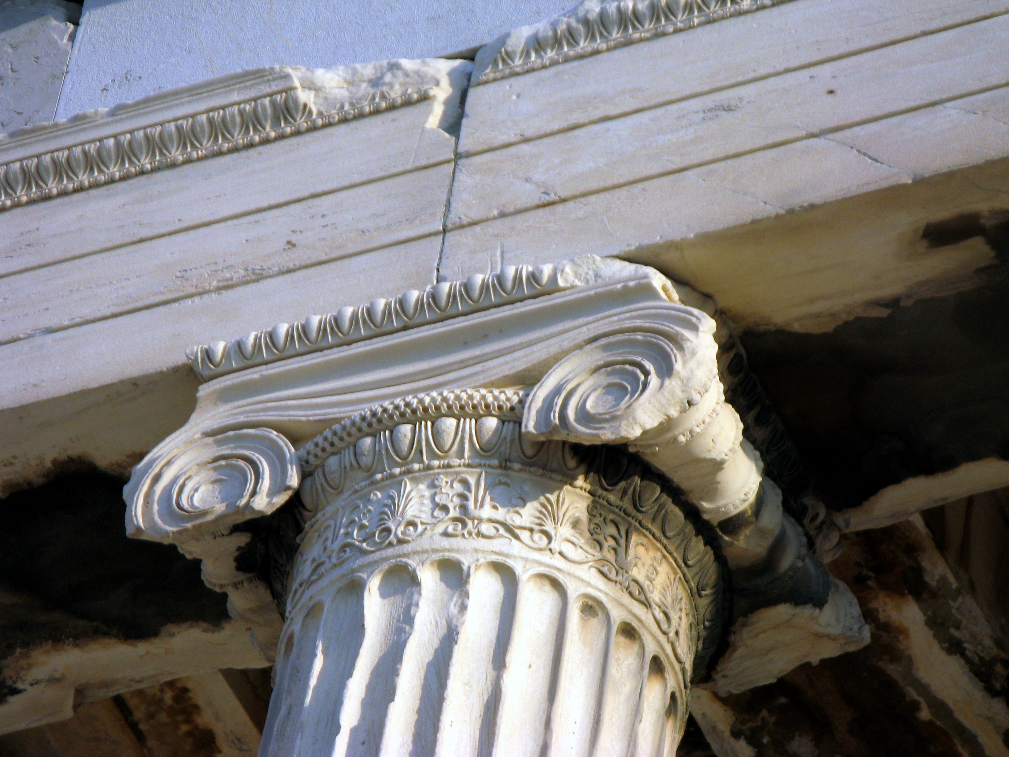 Erechtheum, one of ionic capitals, Athens Acropolis